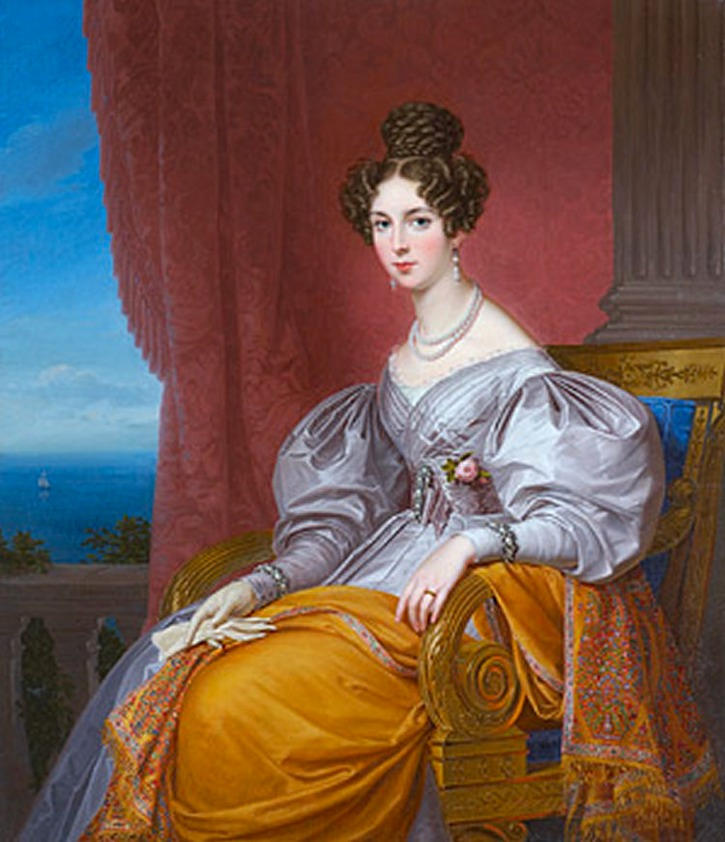 Queen Josephine of Leuchtenberg as the crown princess